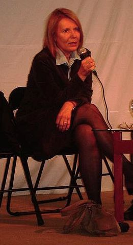 Finnish tv-director and writer Heidi Köngäs at the Turku International Book Fair.